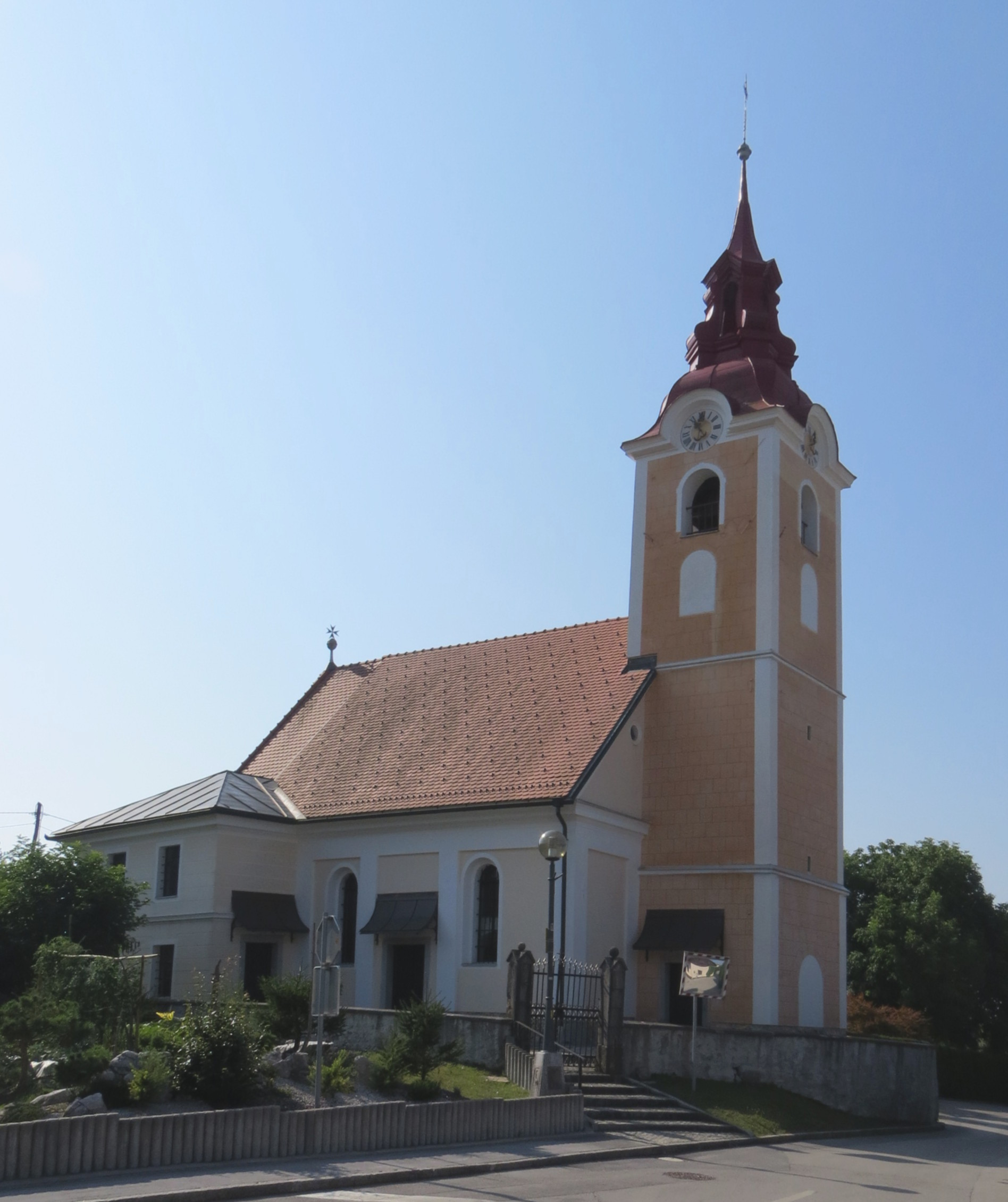 Saint Paul's Church in Križ, Municipality of Komenda, Slovenia